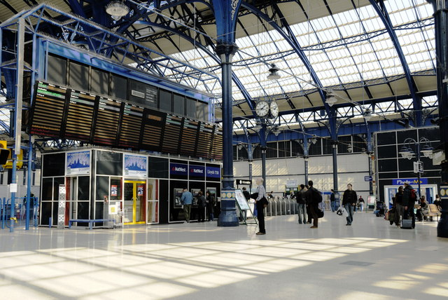 Brighton Station Brighton Station.